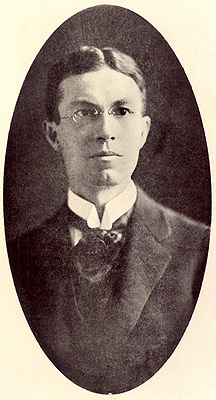 This image shows a photograph of John Behan, taken in 1918.